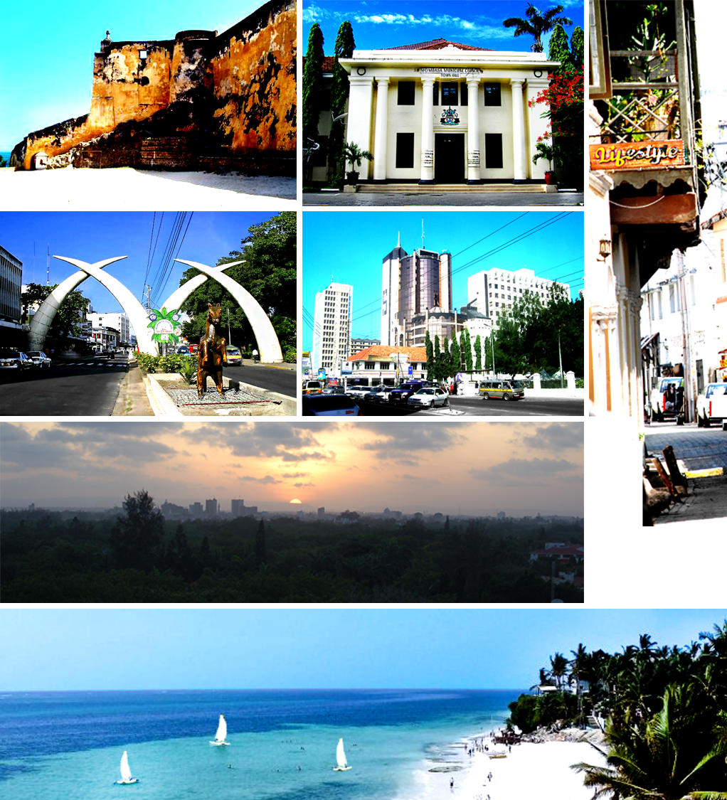 Montage of the city of MombasaKiswahili: Picha za mji wa Mombasa